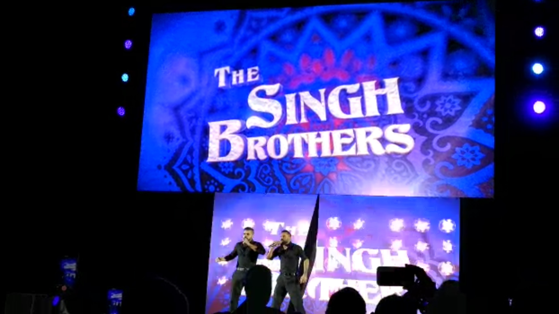 The Singh Brothers introducing Jinder Mahal